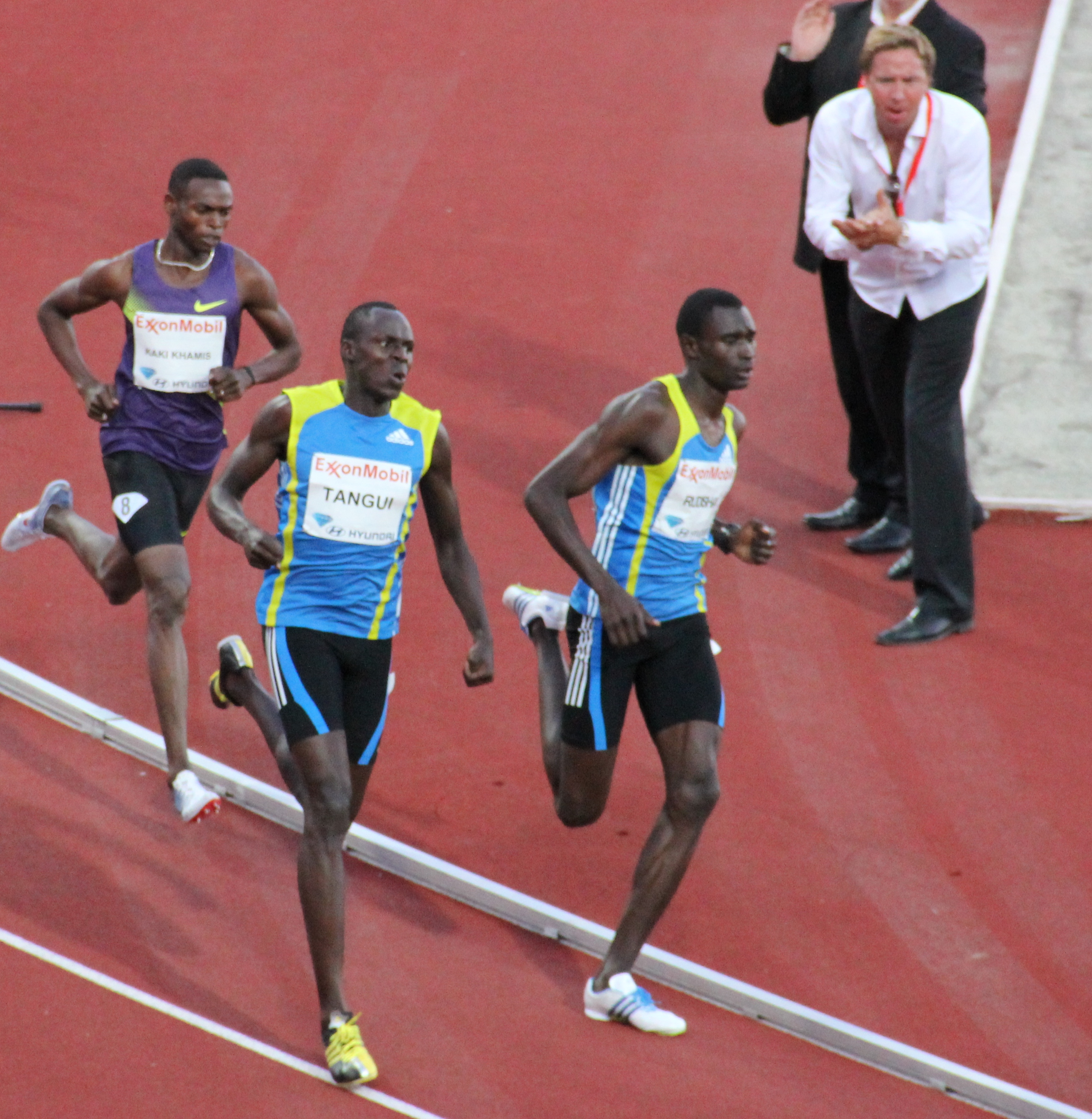 800 metres at 2010 Bislett Games. Rudisha won at 1.42.04 ahead of Kaki Khamis at the fastest not winning time ever, 1.42.23. "Rabbit" Tangui, dropps out at 450 metres. Meetdirector Steinar Hoen ringside cheering